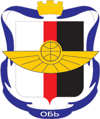 Ob (Novosibirsk oblast), coat of arms